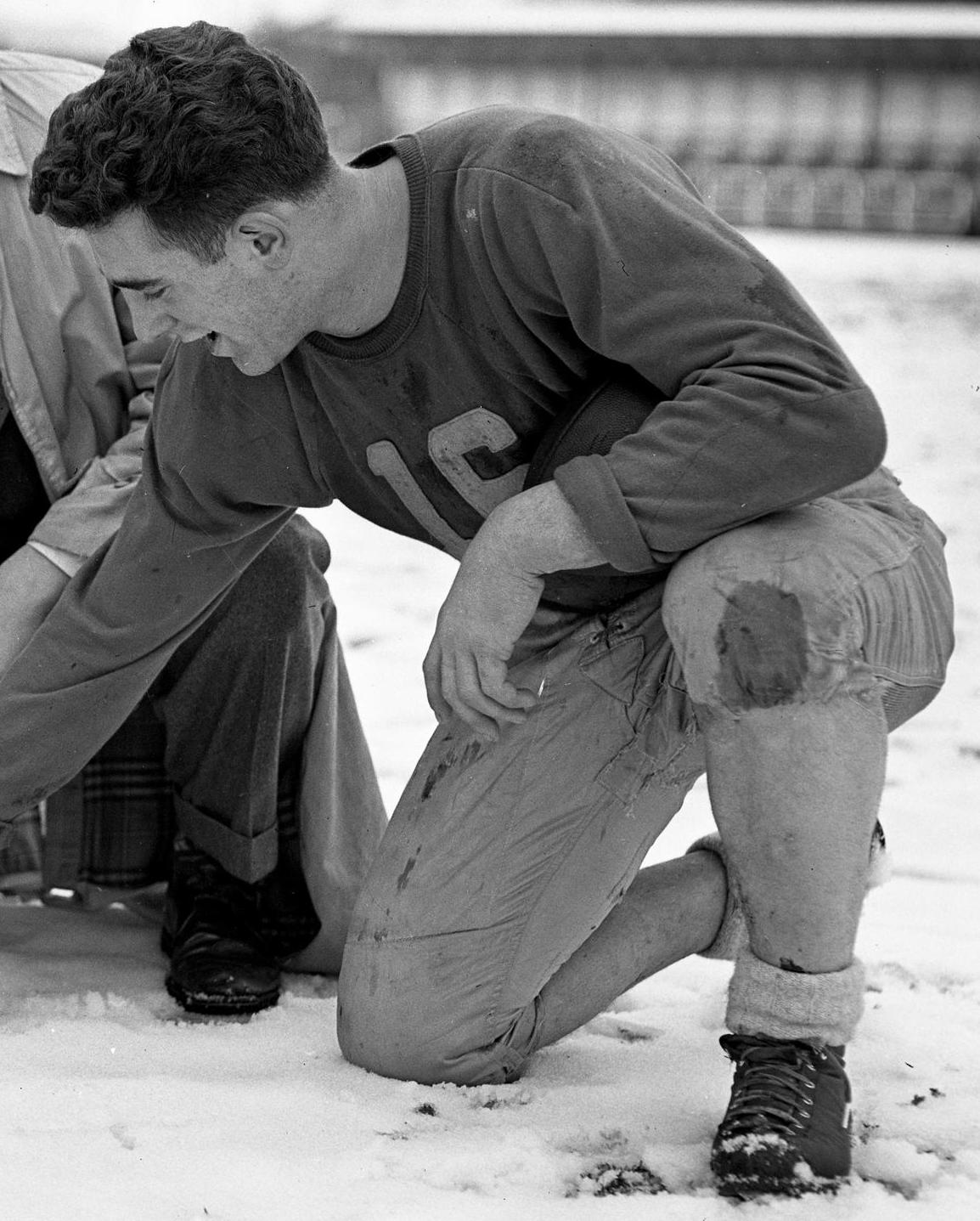 Stampeders football team players work out at UBC VPL Accession Number: 84330 Date: December 6, 1948 Photographer/Studio: Jones, Art Artray Content: Pete Thodos, Ced Gyles, Rod Pantages Part of a series A-B Topic: Football Sports teams Snow Organization: University of British Columbia Location: British Columbia - University Endowment Lands More information on our historical photograph collection